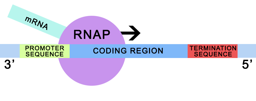 Add description